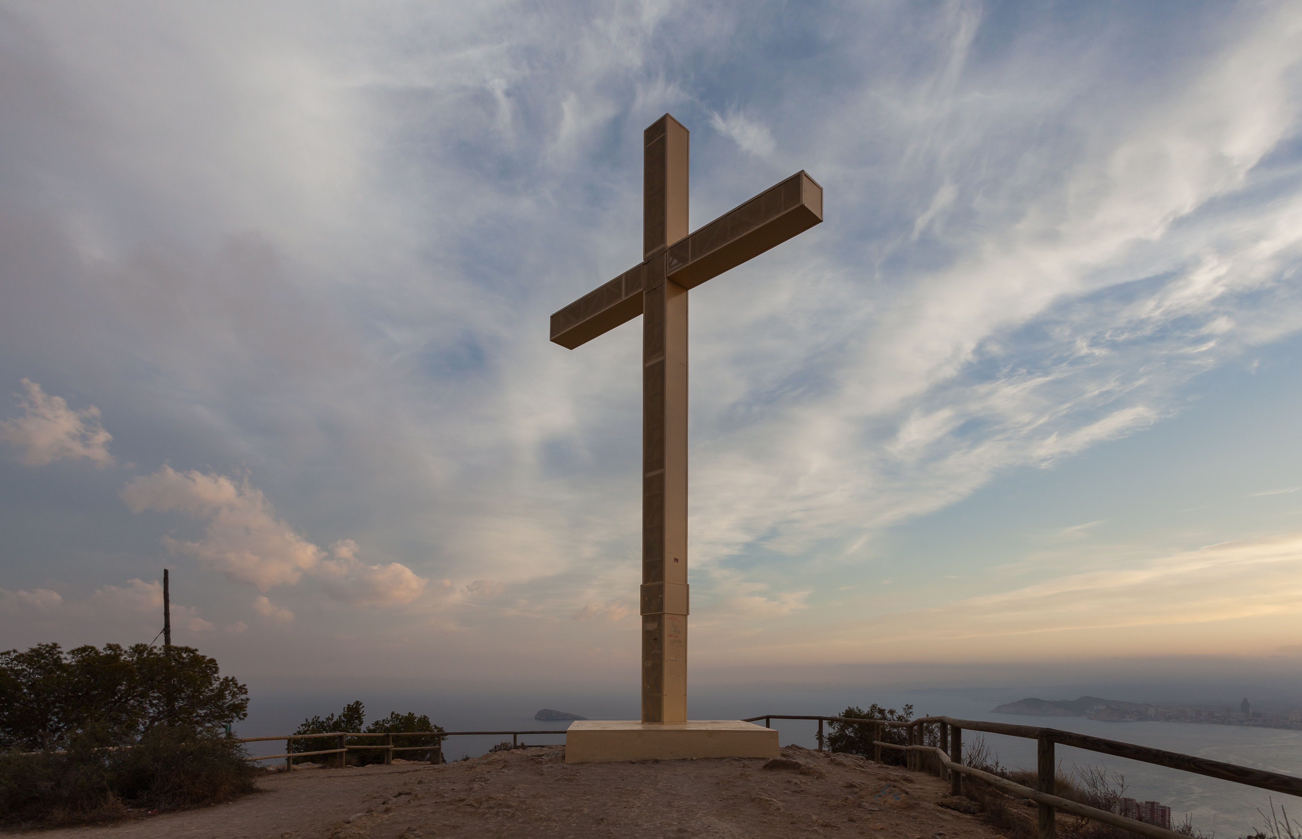 Cross of Benidorm, Spain